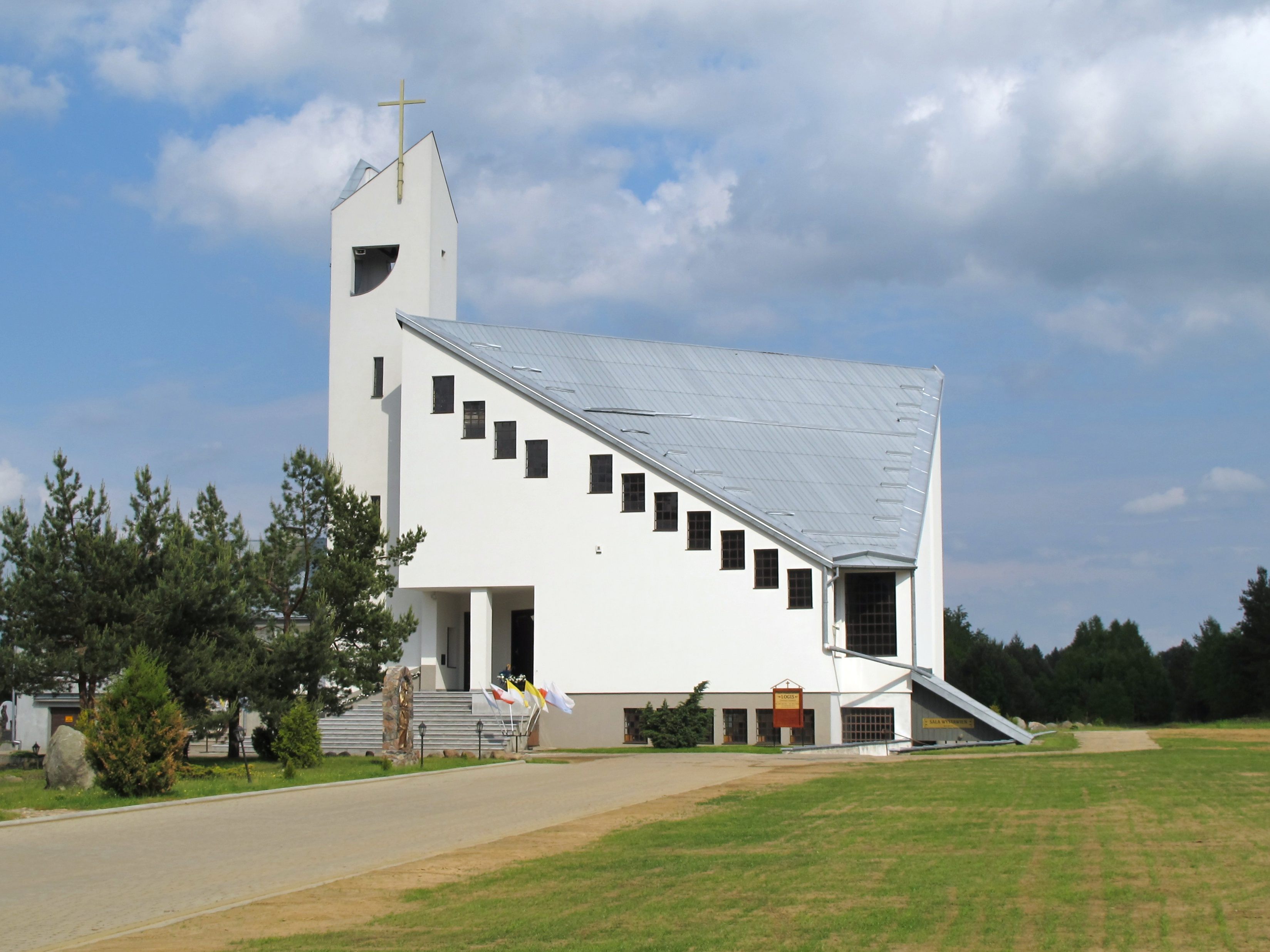 Church of the Lord's Ascension in Karakule, gm. Supraśl, podlaskie, Poland